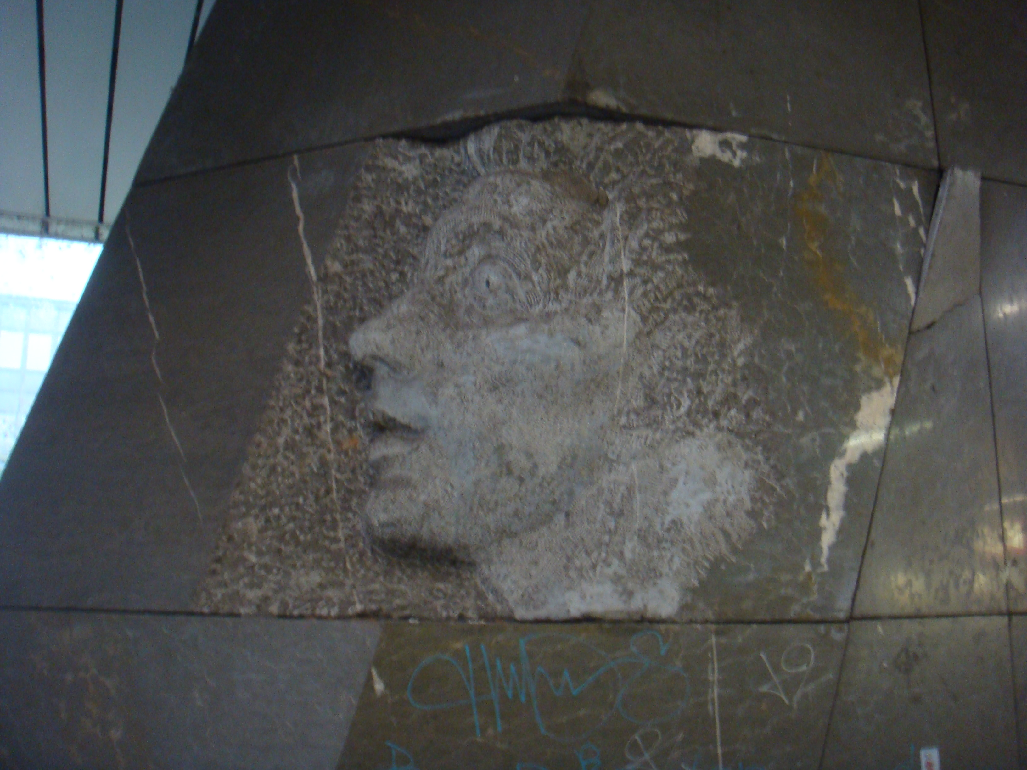 Depiction of Julius Fučík in Holešovice Rail Station, Prague